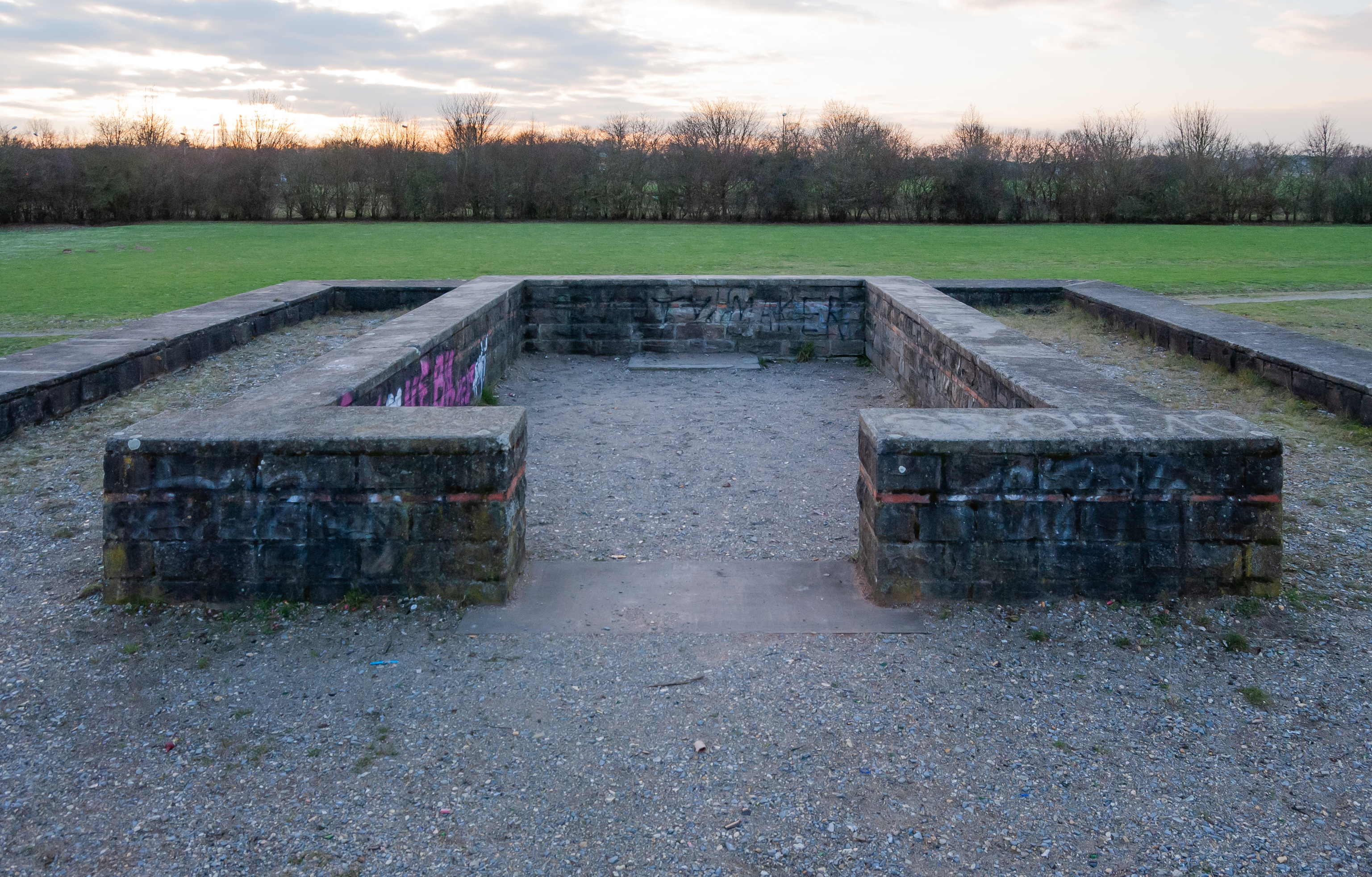 Krefeld (North Rhine-Westphalia, Germany) – district Elfrath – Sanctuary of Elfrath – former temple – foundations